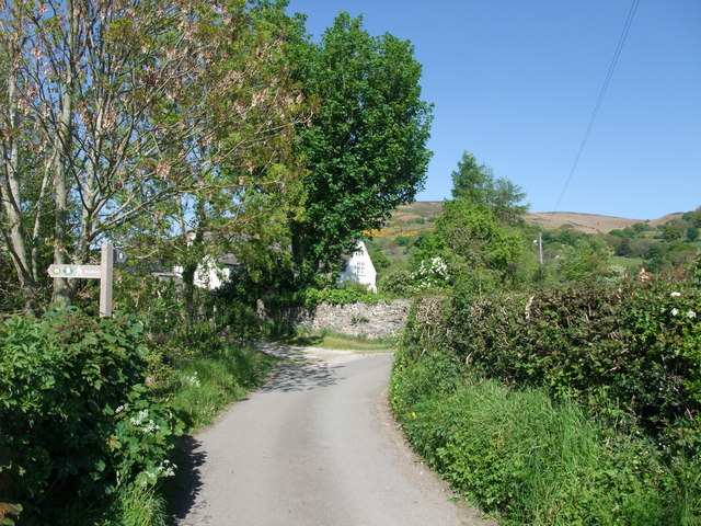 Corner of a lane near Geinas With a finger post for Offa's Dyke Path pointing left to Bodfari, and Moel y Parc on the horizon